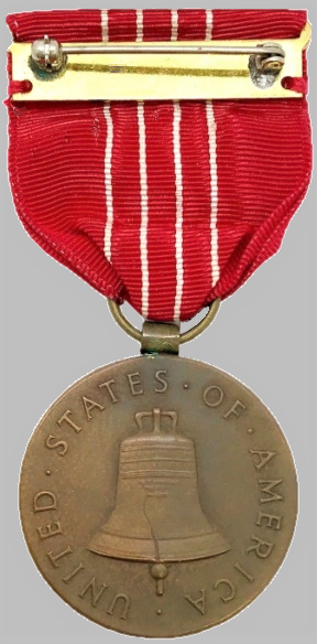 USA award: Reverse side of medal to civilians who aided US war effort.